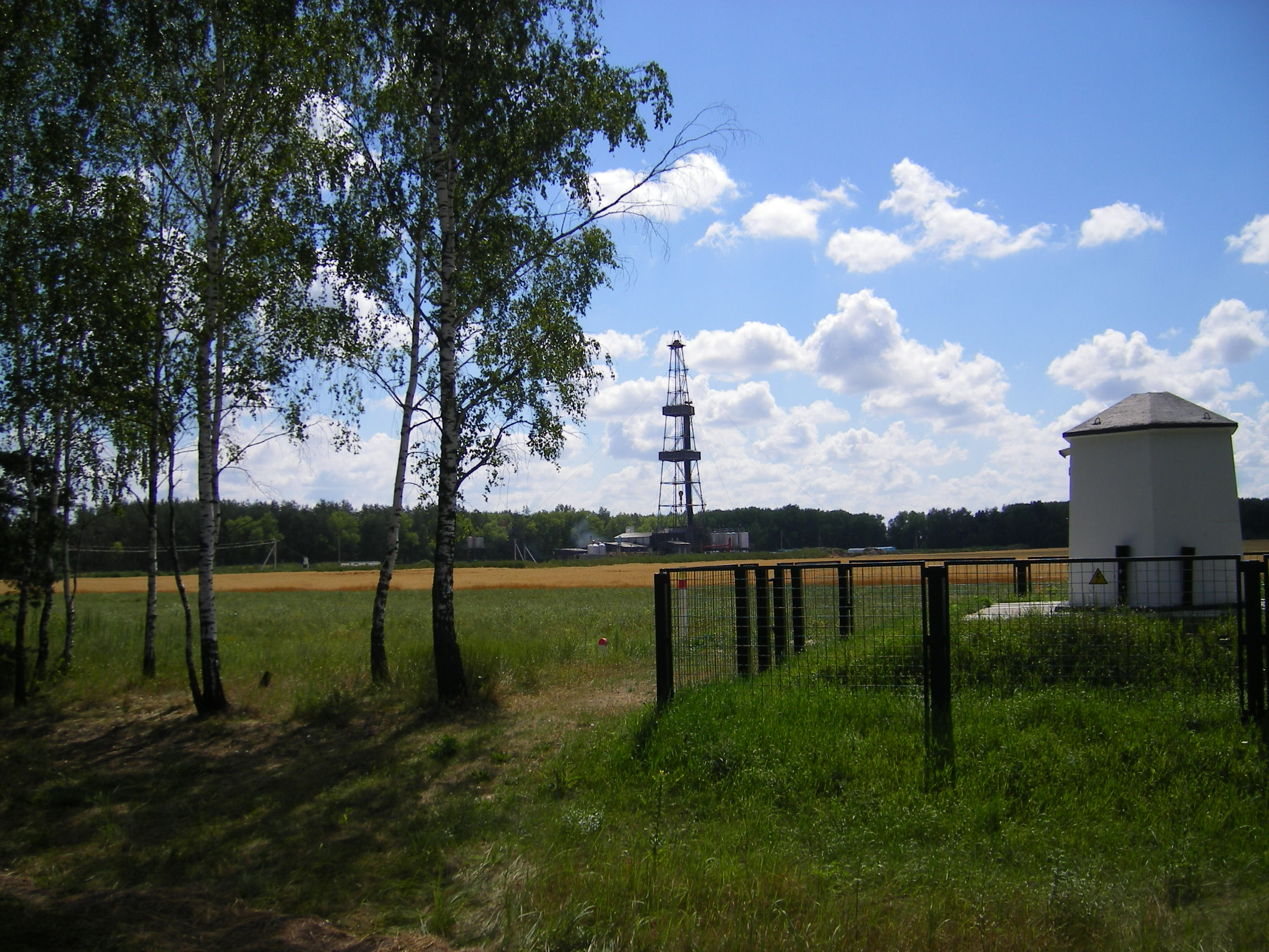 Oil pruduction in Rechytsa district